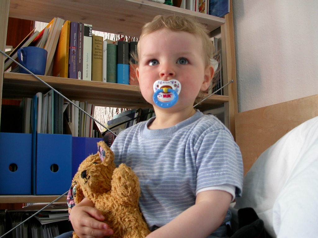 Little Boy Paul